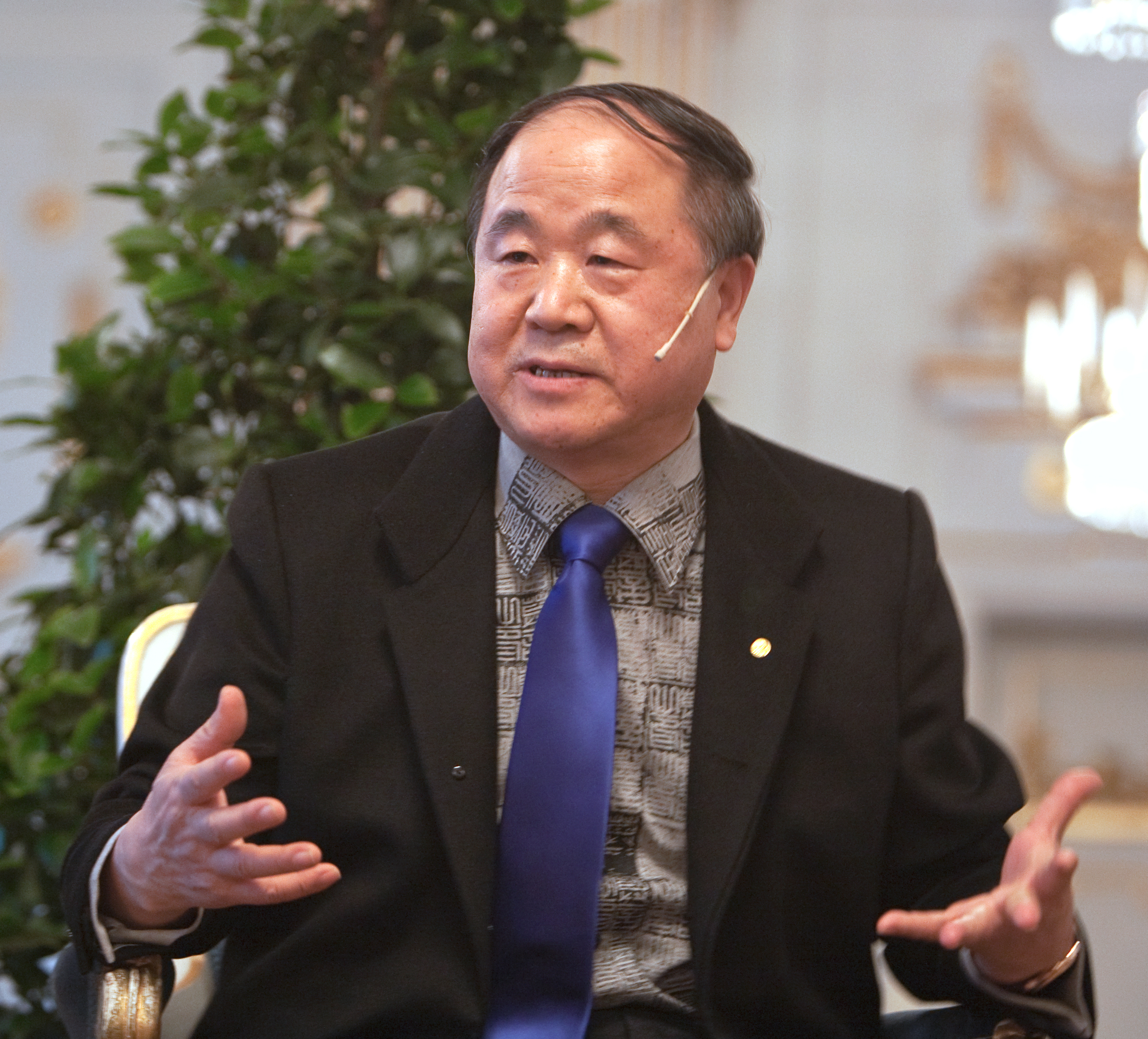 Mo Yan, Nobel Prize winner in literature 2012